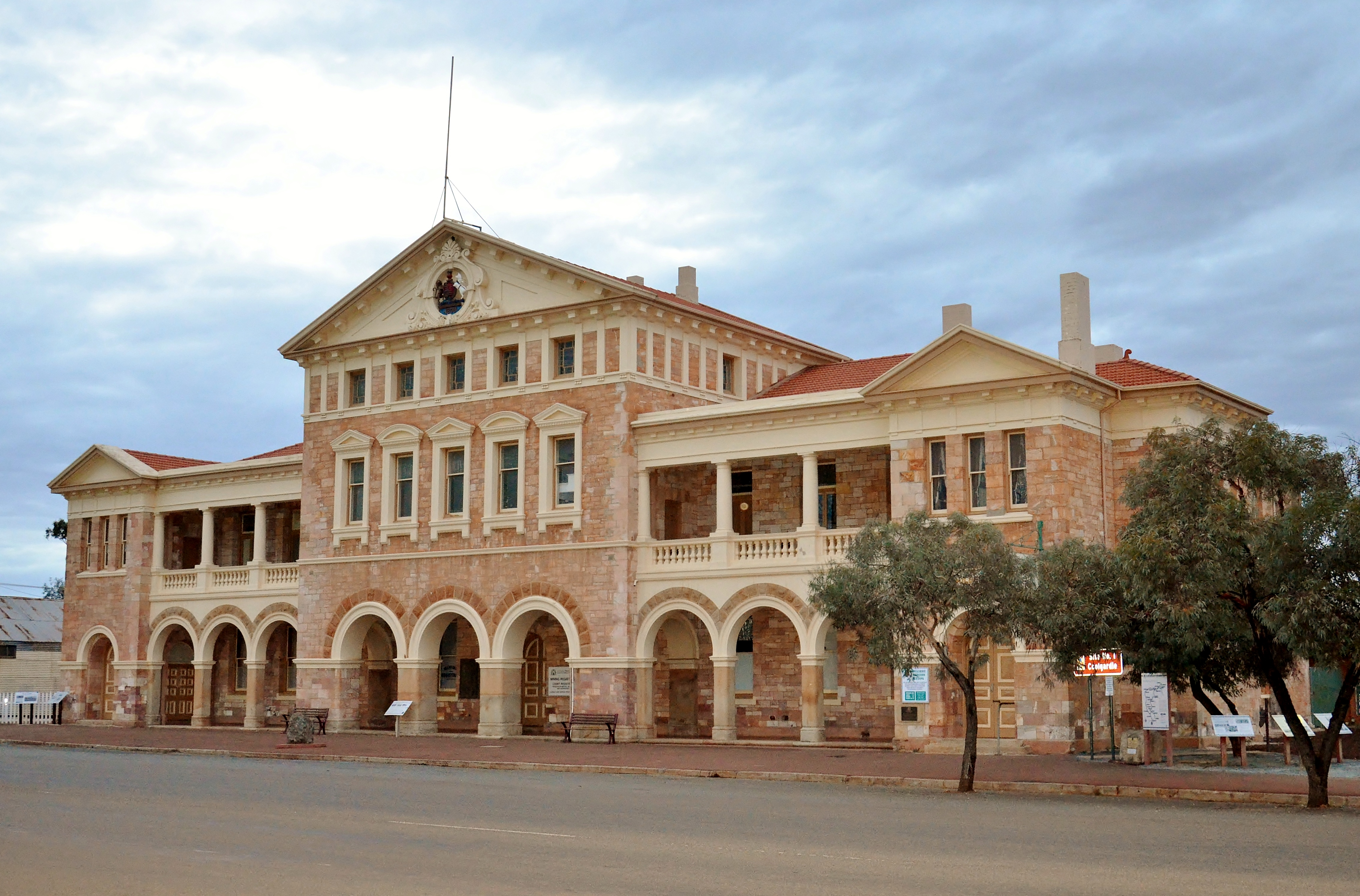 View of the old Wardens's Court building, Coolgardie, Western Australia